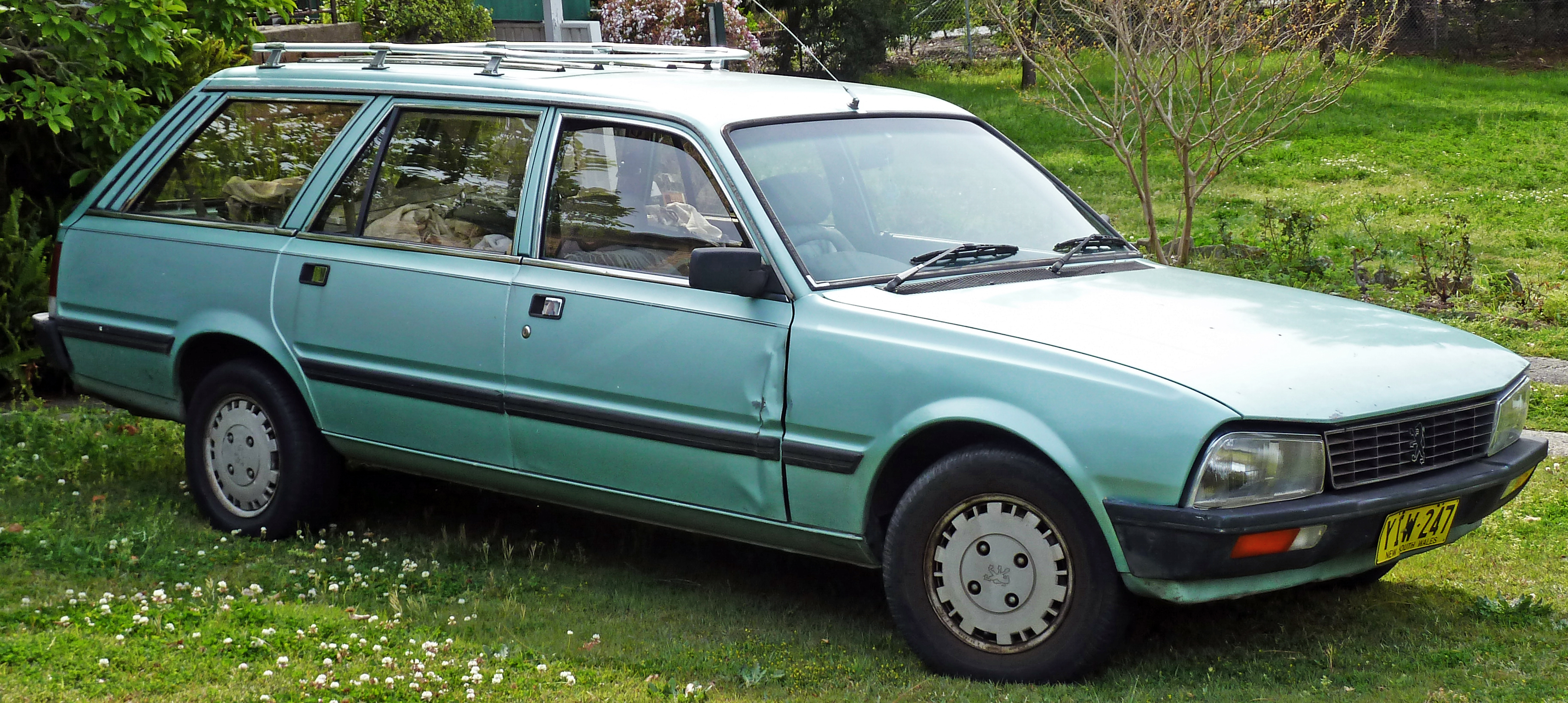 1985 Peugeot 505 SR station wagon. Photographed in Taren Point, New South Wales, Australia.